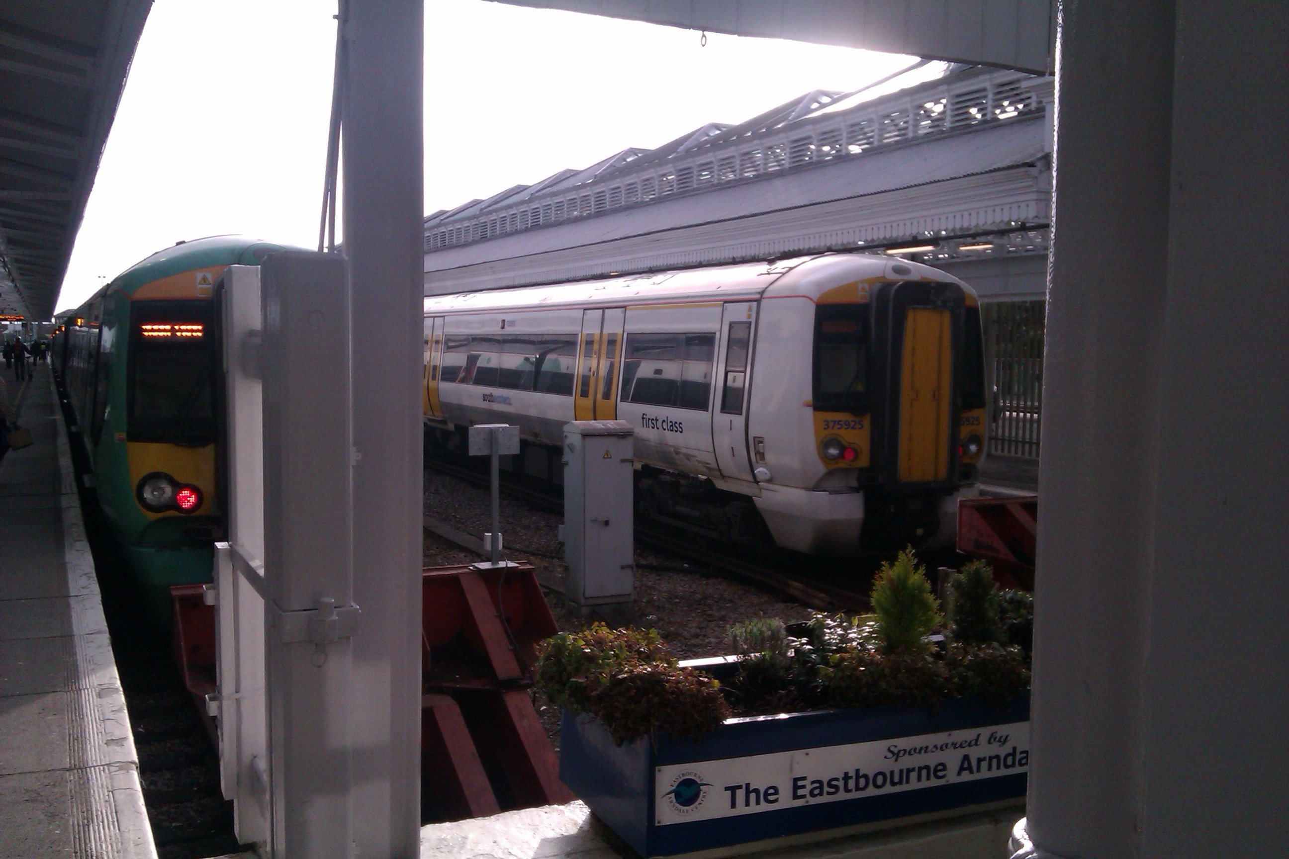 Southeastern Class 375 on a Hastings to London Charing Cross service which was diverted due to a derailment at Mountfield on the Hastings - Tonbridge line. This service called at St Leonards Warrior Square, Bexhill, Eastbourne, Lewes, London Bridge and Waterloo East.